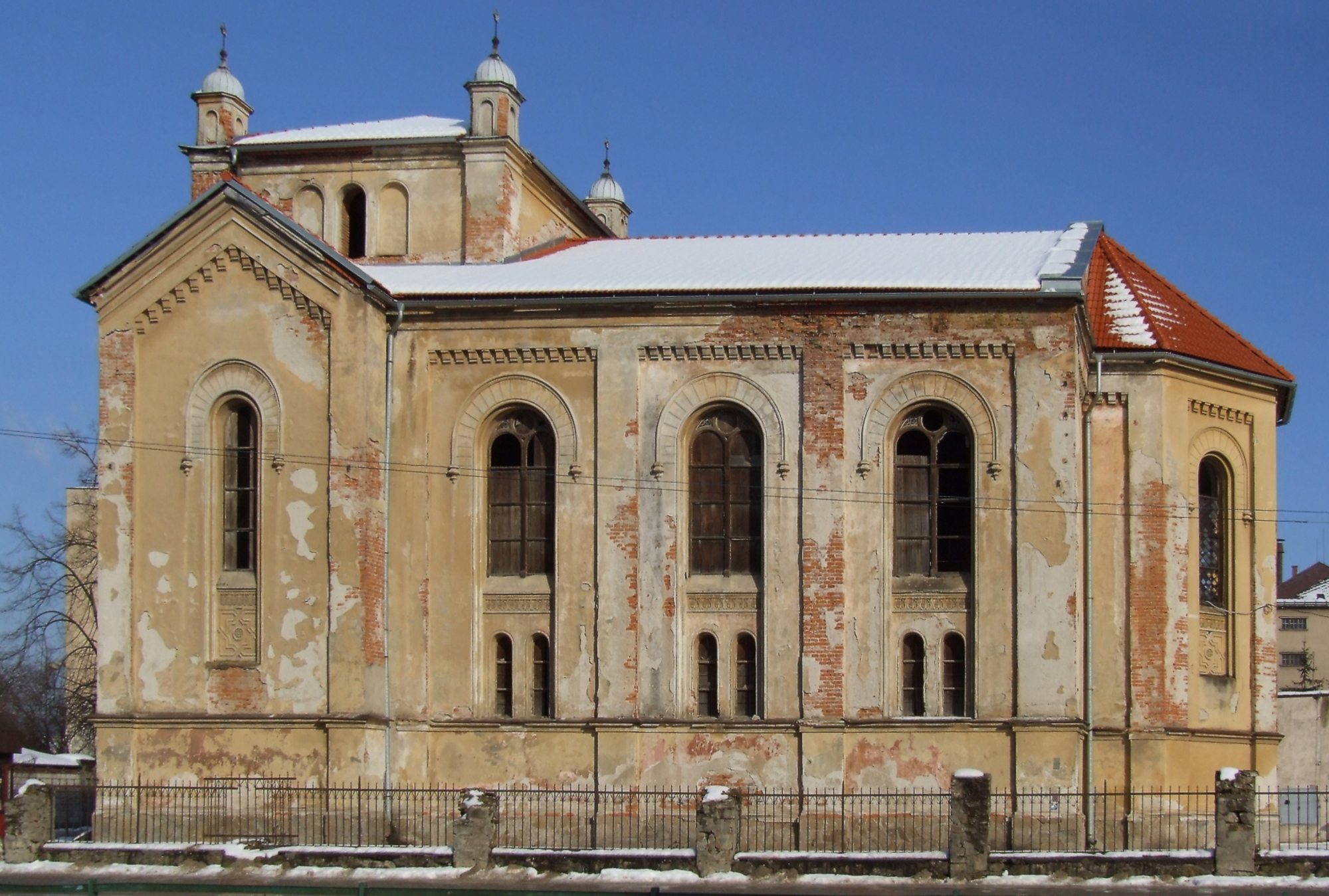 Bytča, Slovakia. Synagogue.